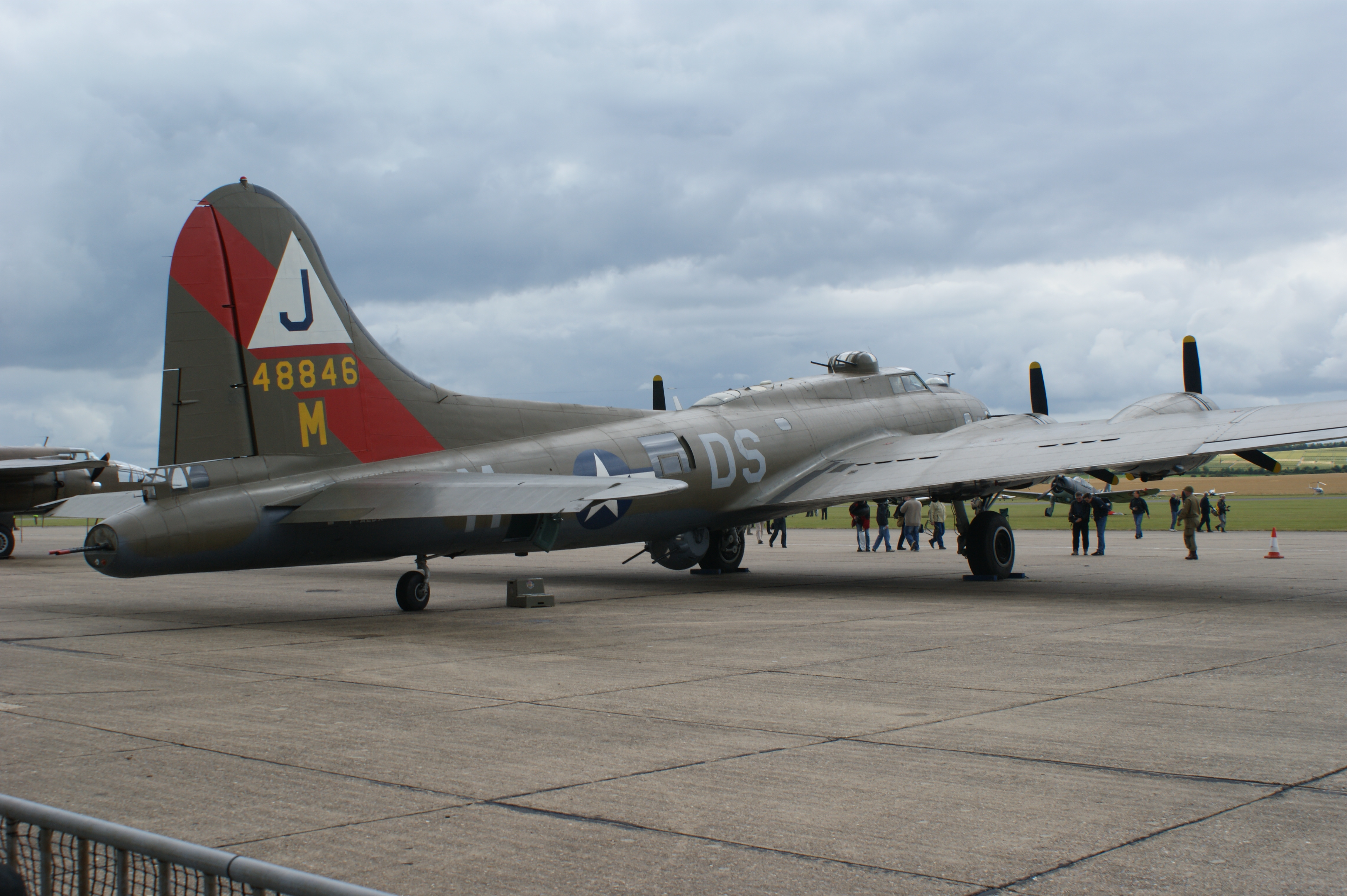 "The Pink Lady" - "The Flying Legends" air display at Duxford UK